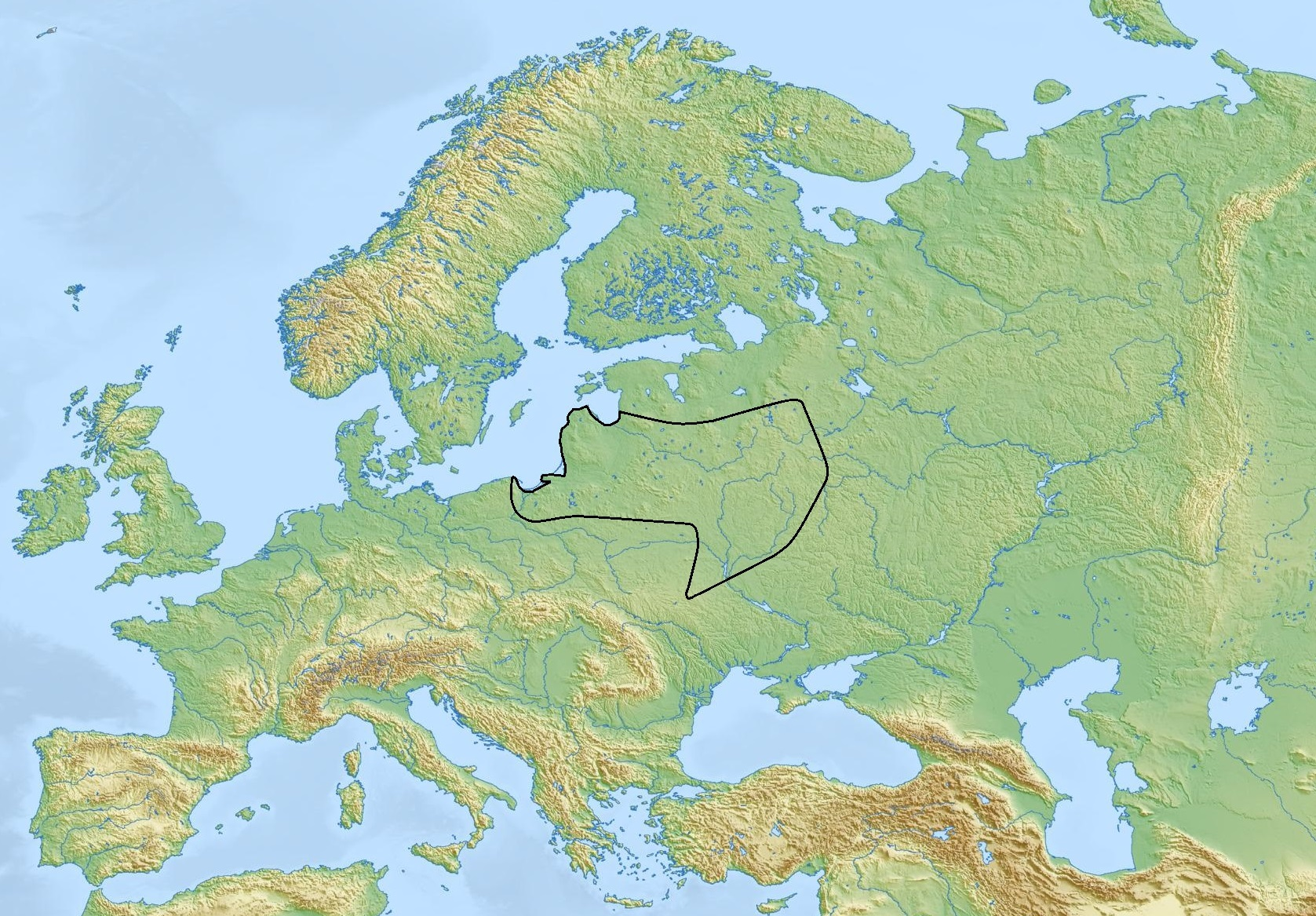 Map of the distribution of early Indo-European river names, in accordance with the research of Hans Krahe and Wolfgang Schmid. The original version of this map was printed in on page 294 in the Encyclopedia of Indo-European Culture, which was edited by J. P. Mallory and Douglas Q. Adams, and published by Taylor & Francis in 1997.